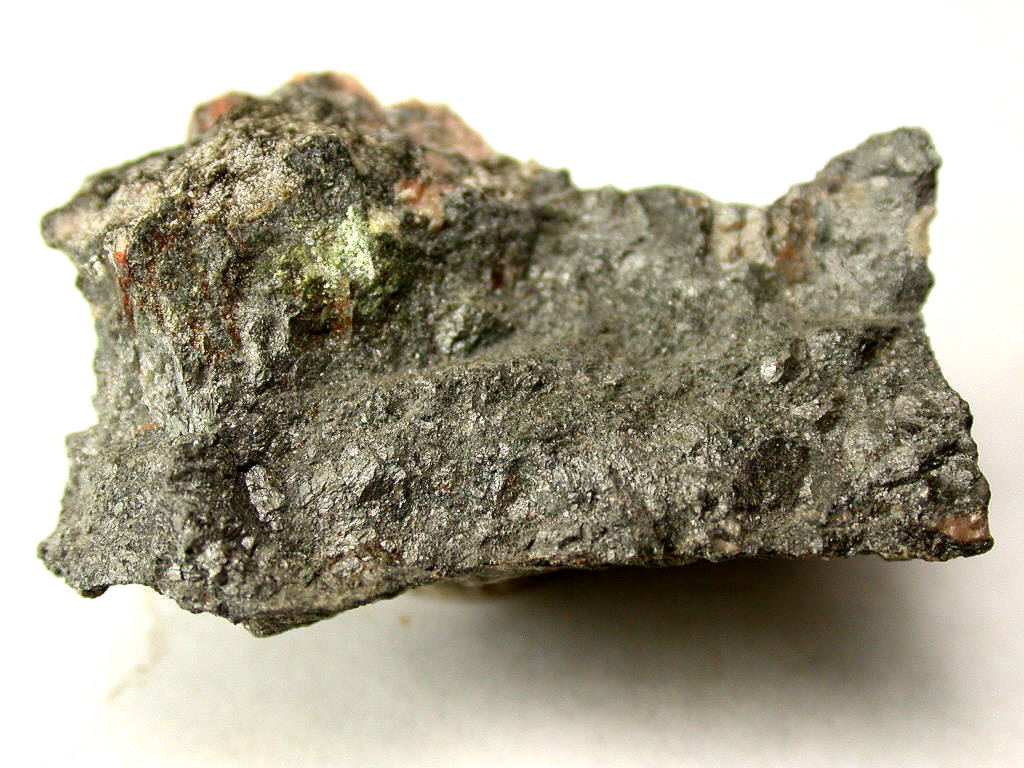 Rammelsbergite Locality: Eisleben, Mansfeld Basin, Saxony-Anhalt, Germany Original description: An 3.8 by 2.6 cms tarnished mass. JSS specimen and photo.